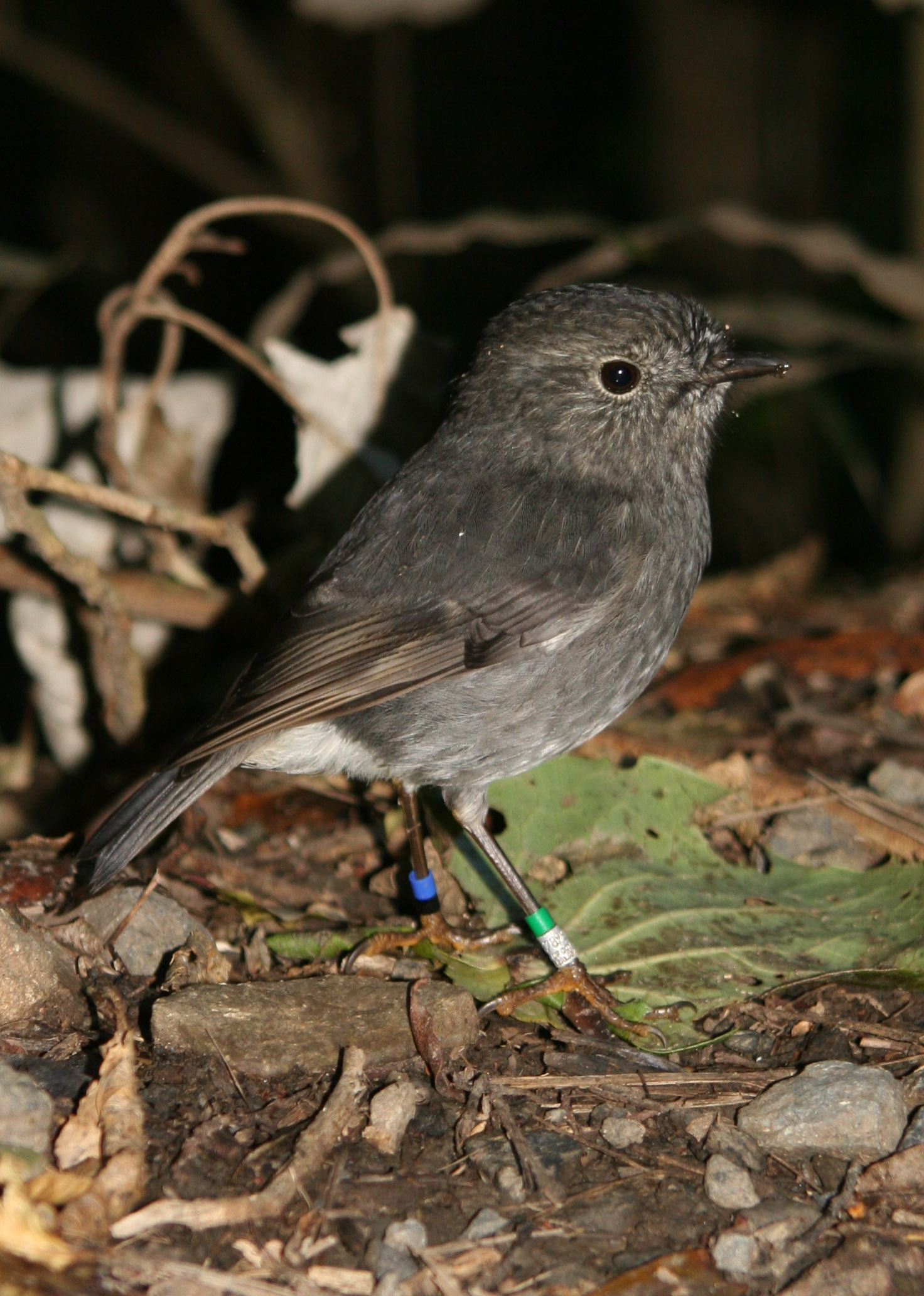 North Island Robin, Karori Sanctuary, Wellington, New Zealand.